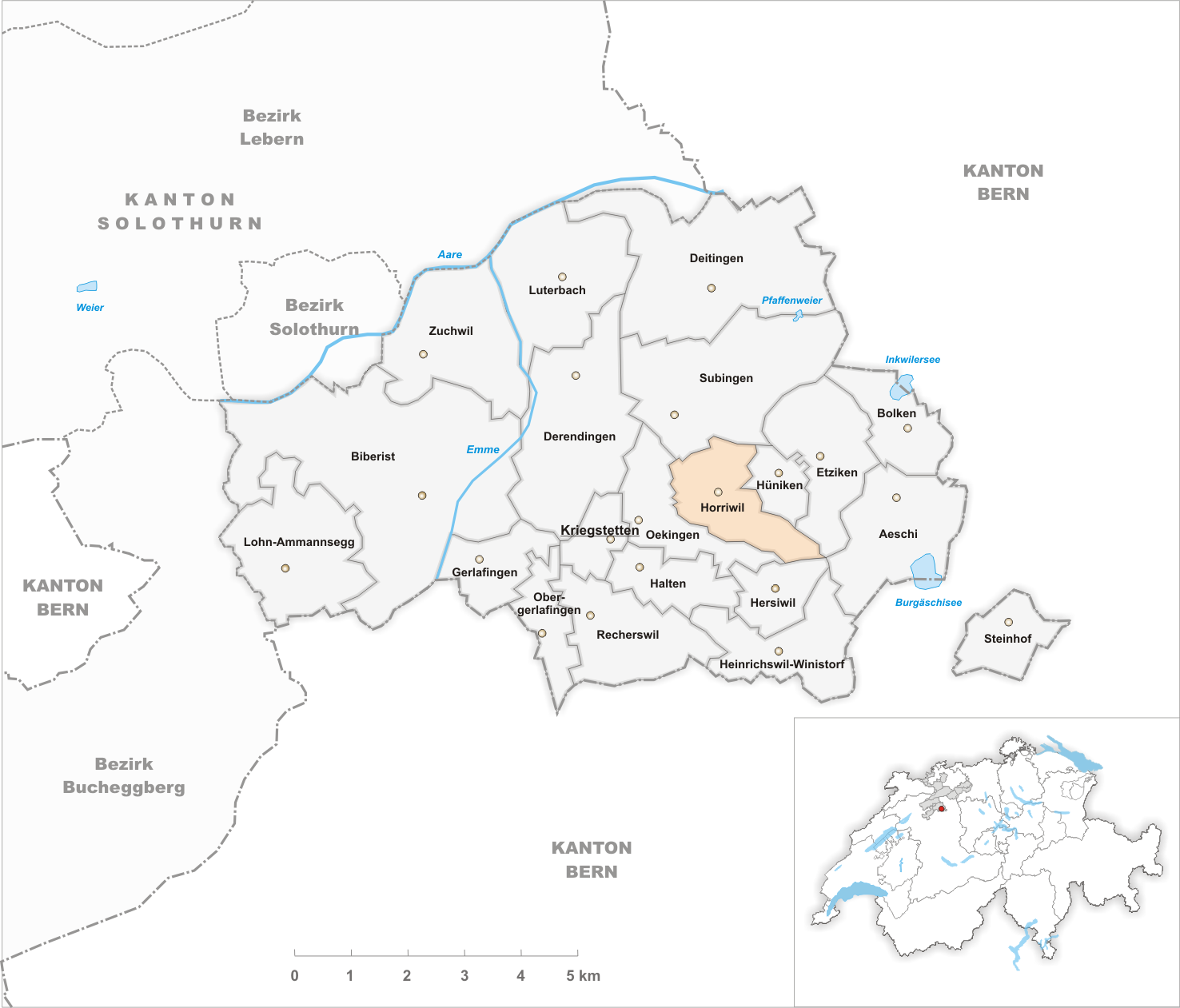 Municipality Horriwil